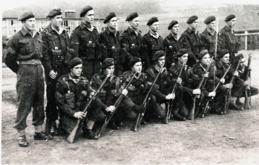 Officer education of the Norwegian Army soldiers in Allied-occupied Germany in 1947.